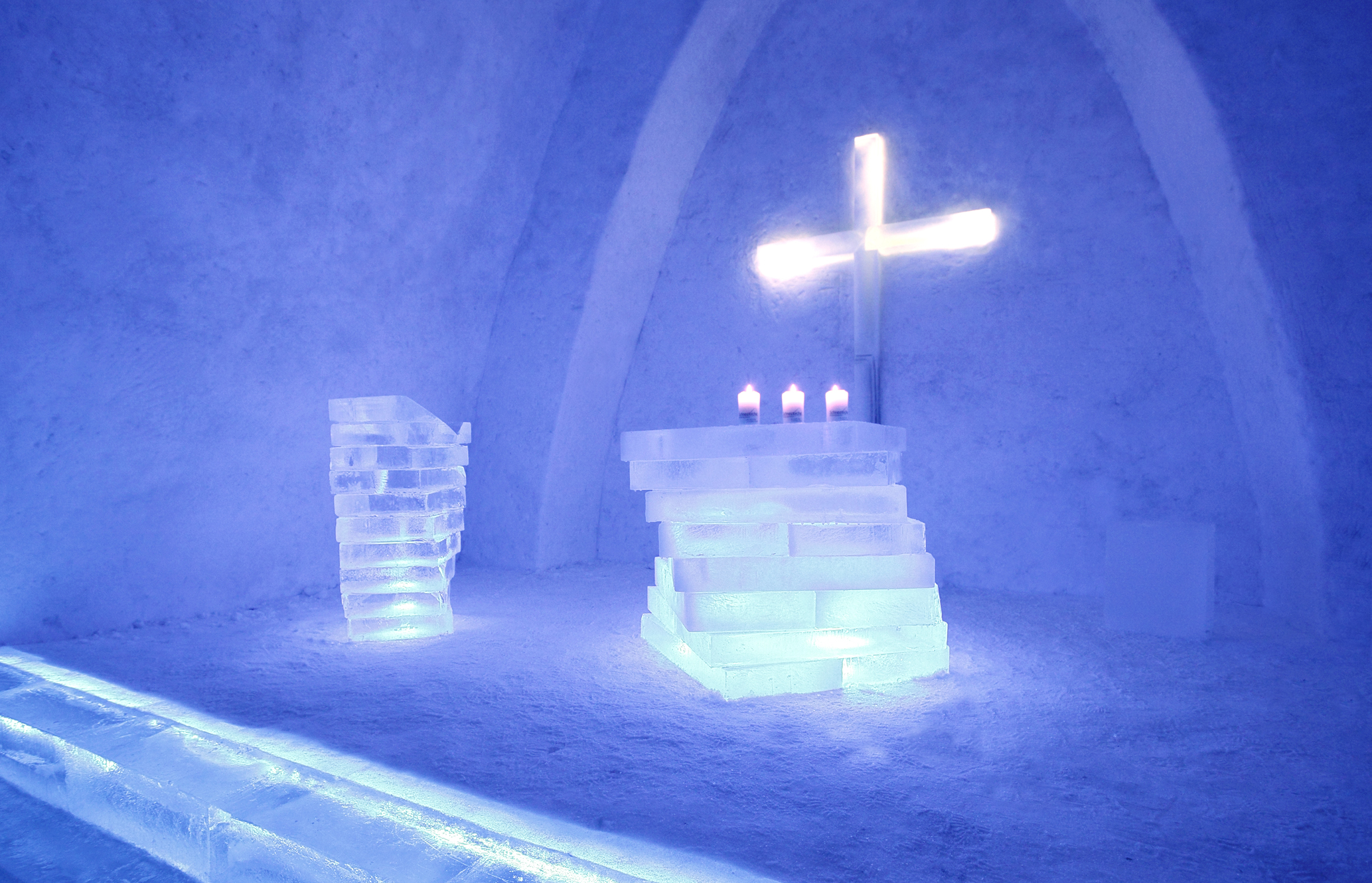 Altar of ice illuminated from inside